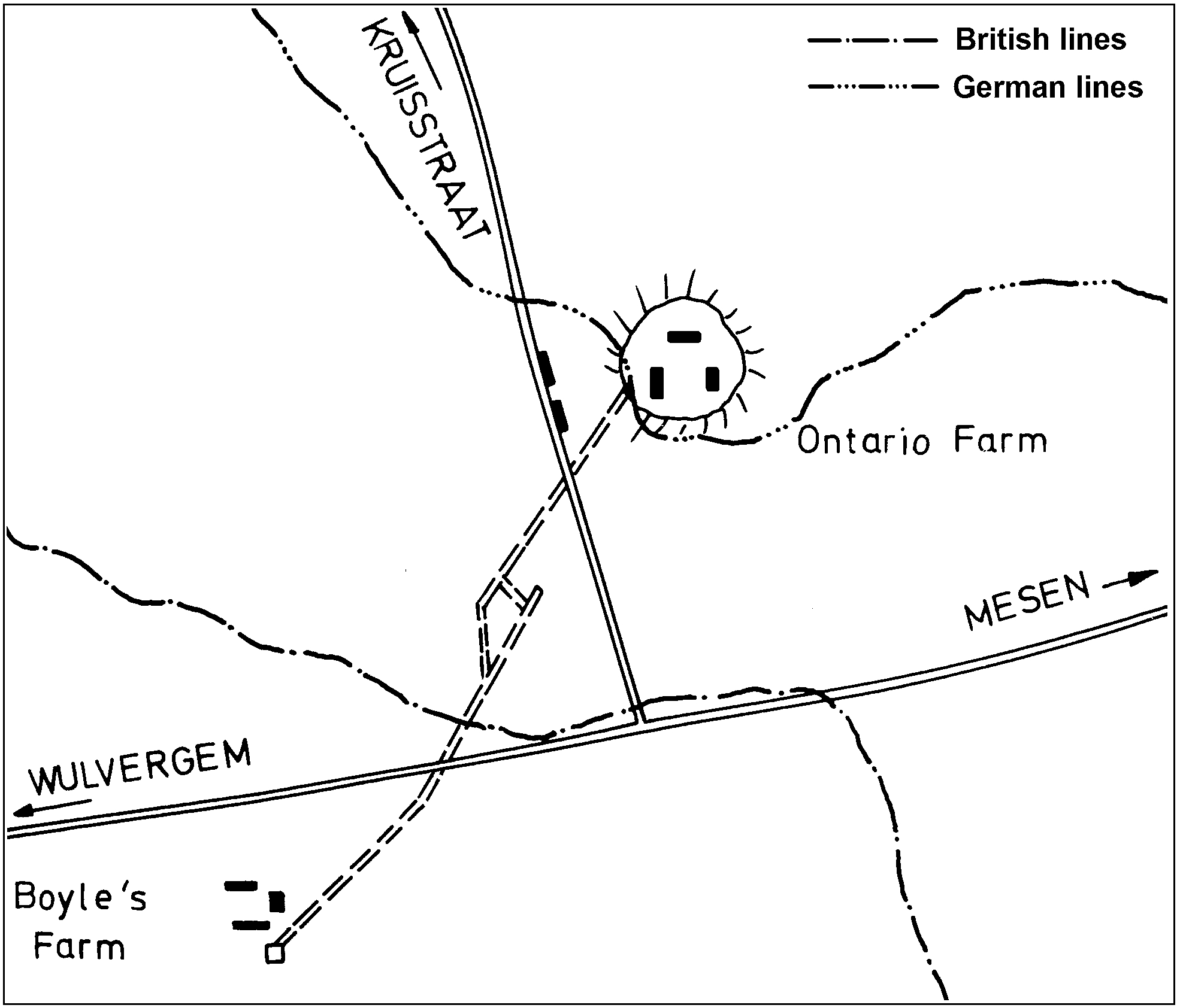 Plan of the mine at Ontario Farm, part of the mines placed by the tunnelling companies of the Royal Engineers in the Battle of Messines (1917). This drawing is based on the plans published in Roger Lampaert, De Mijnenoorlog in Vlaanderen 1914–1918, Roesbrugge/Belgium (Drukkerij Schoonaert) 1989.